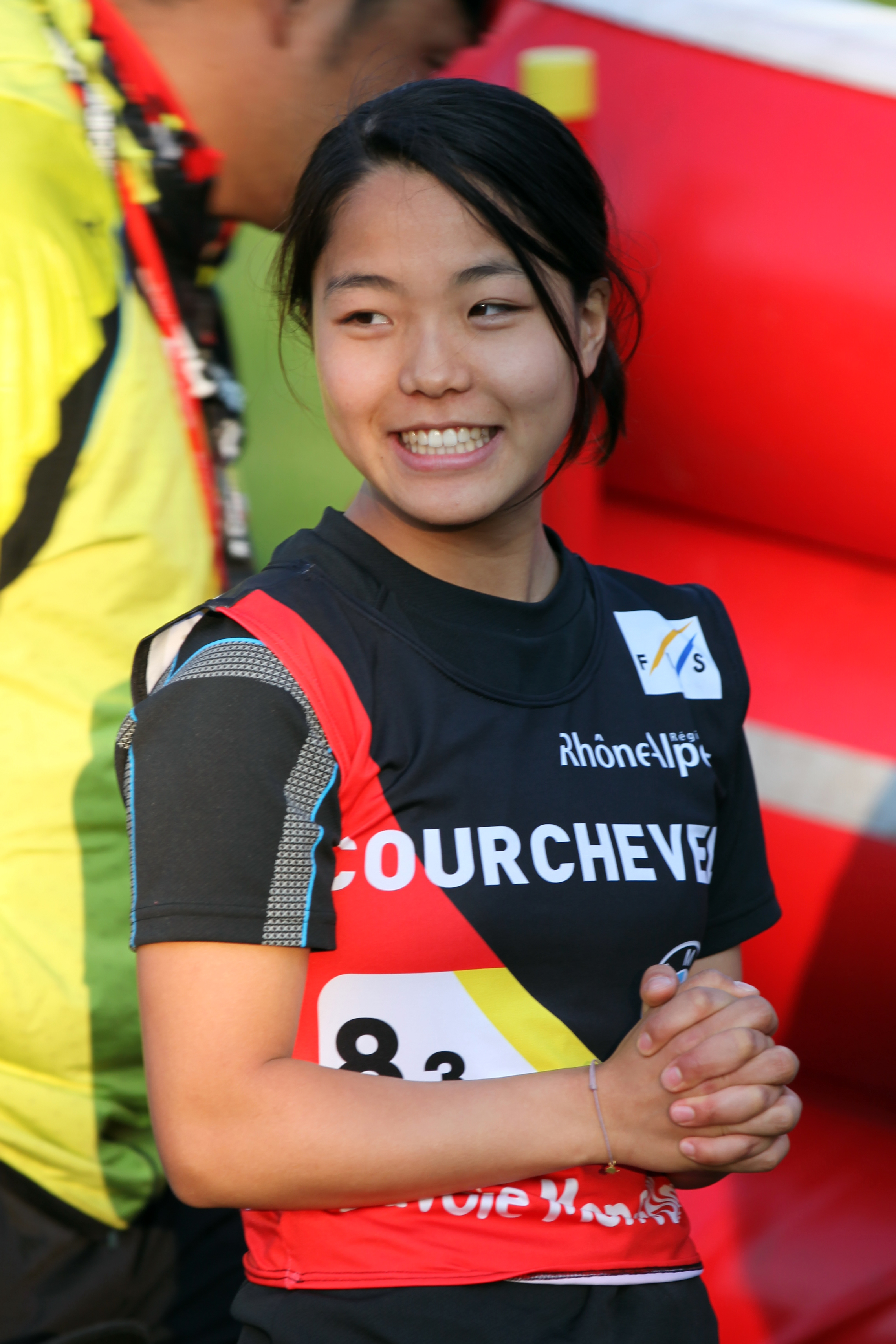 Sara Takanashi at the team competition of the Summer Grand Prix ski jumping in Courchevel, rejoicing at her team's silver medal and her own excellent results after her teammate Taku Takeuchi's jump.